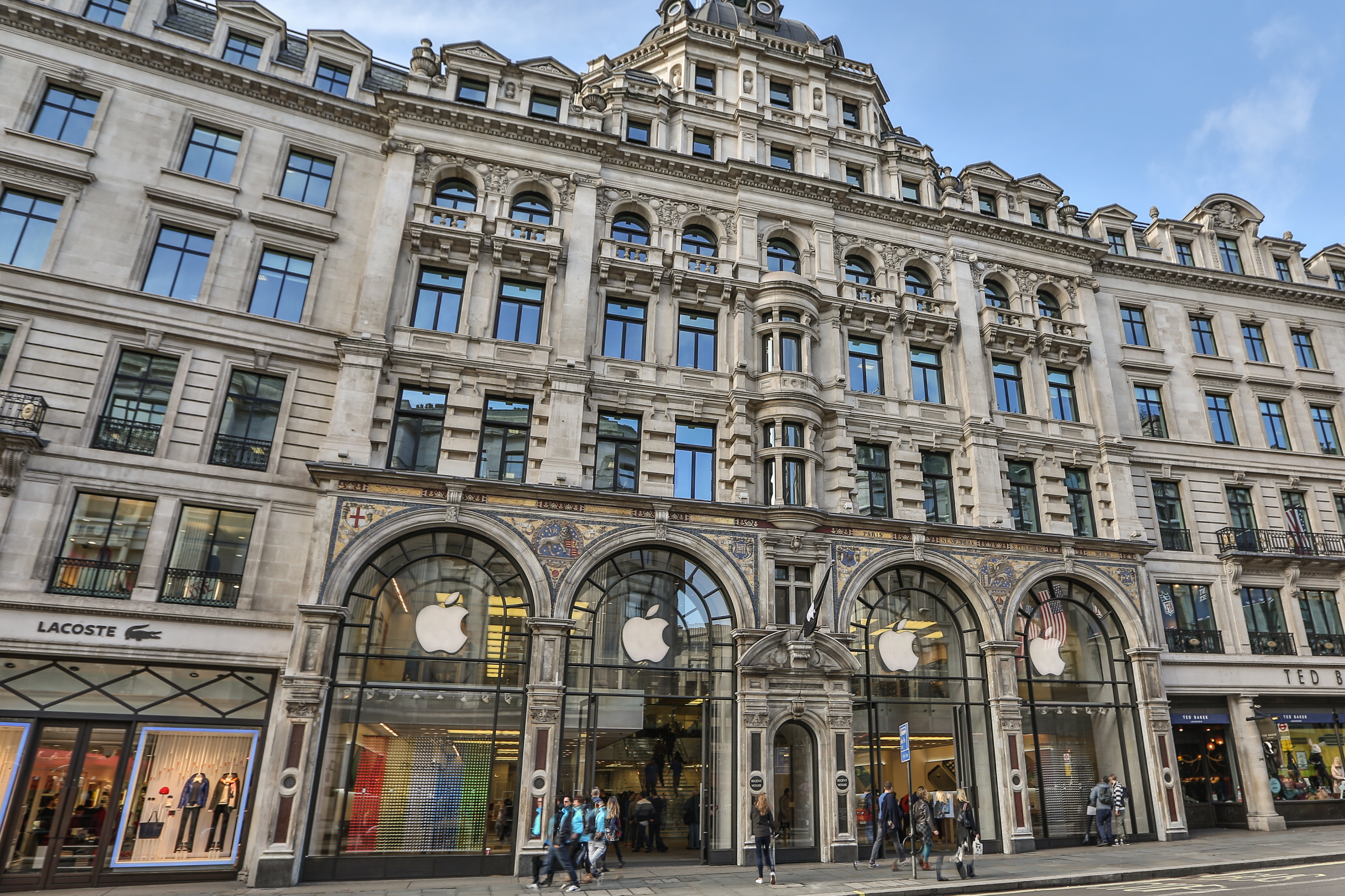 Regent Street Apple Store, London 12297897574 o